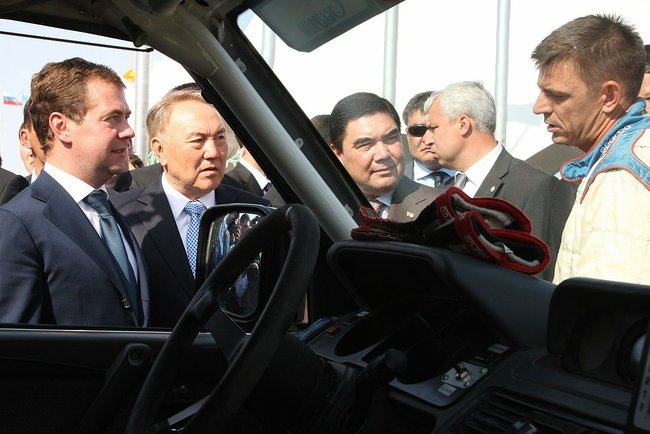 TURKMENBASHI, TURKMENISTAN. At the ceremony marking the final stage of the Silk Way Rally Dakar Series 2009. Speaking with the racing drivers.